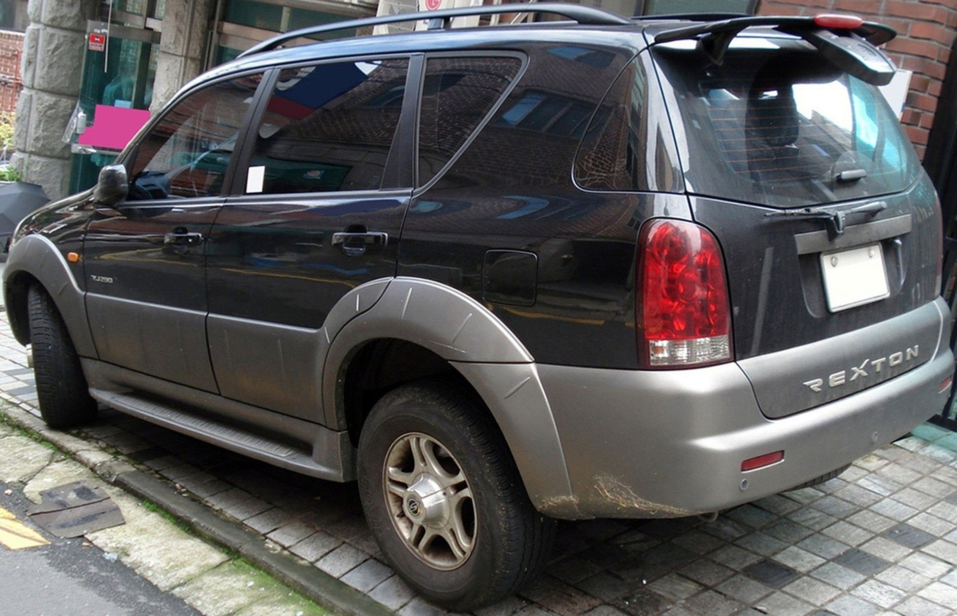 SsangYong Rexton